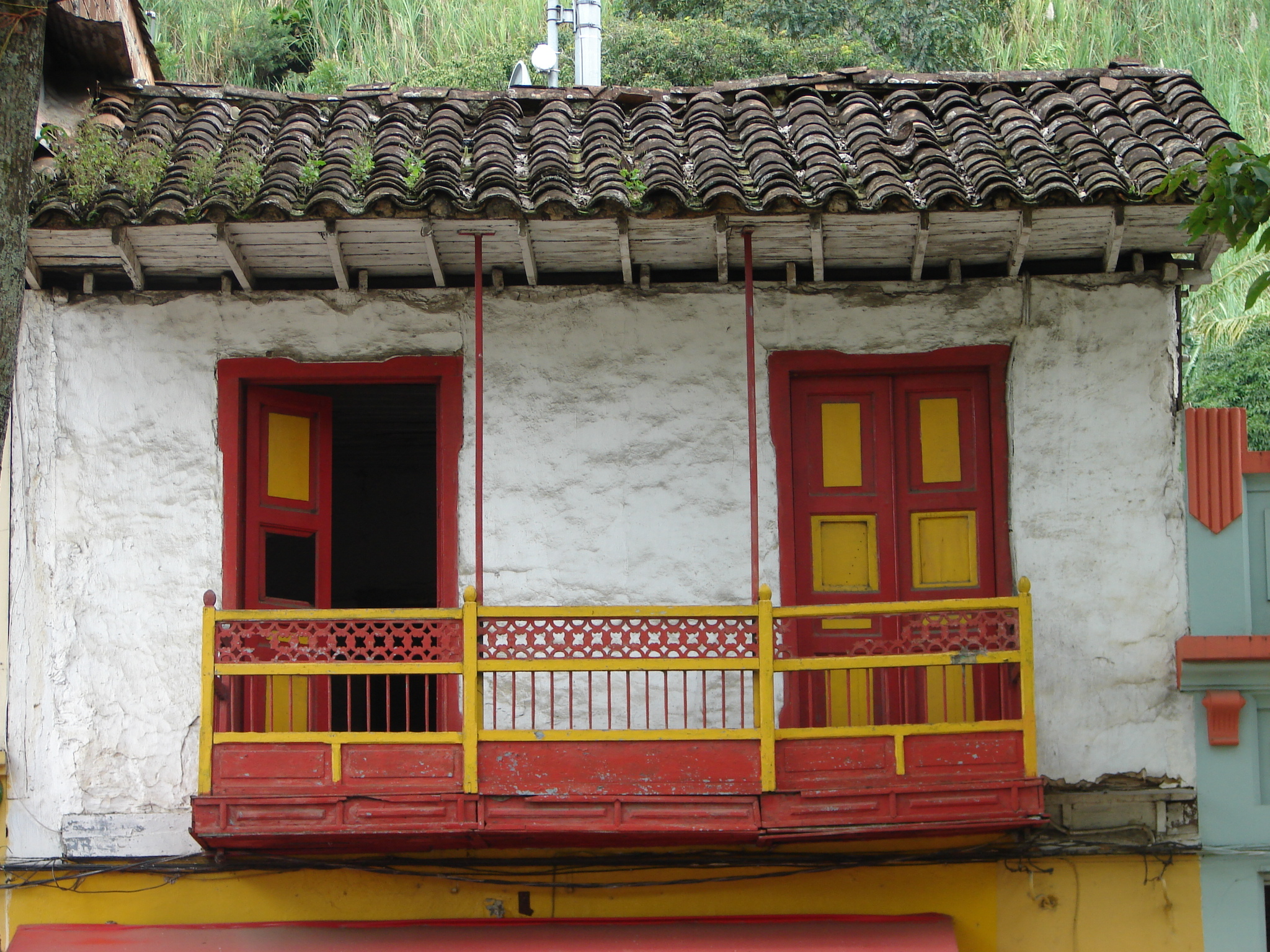 Antiquities House in the municipality of Cisneros in Antioquia (Colombia)CISNEROS - ANTIOQUIA